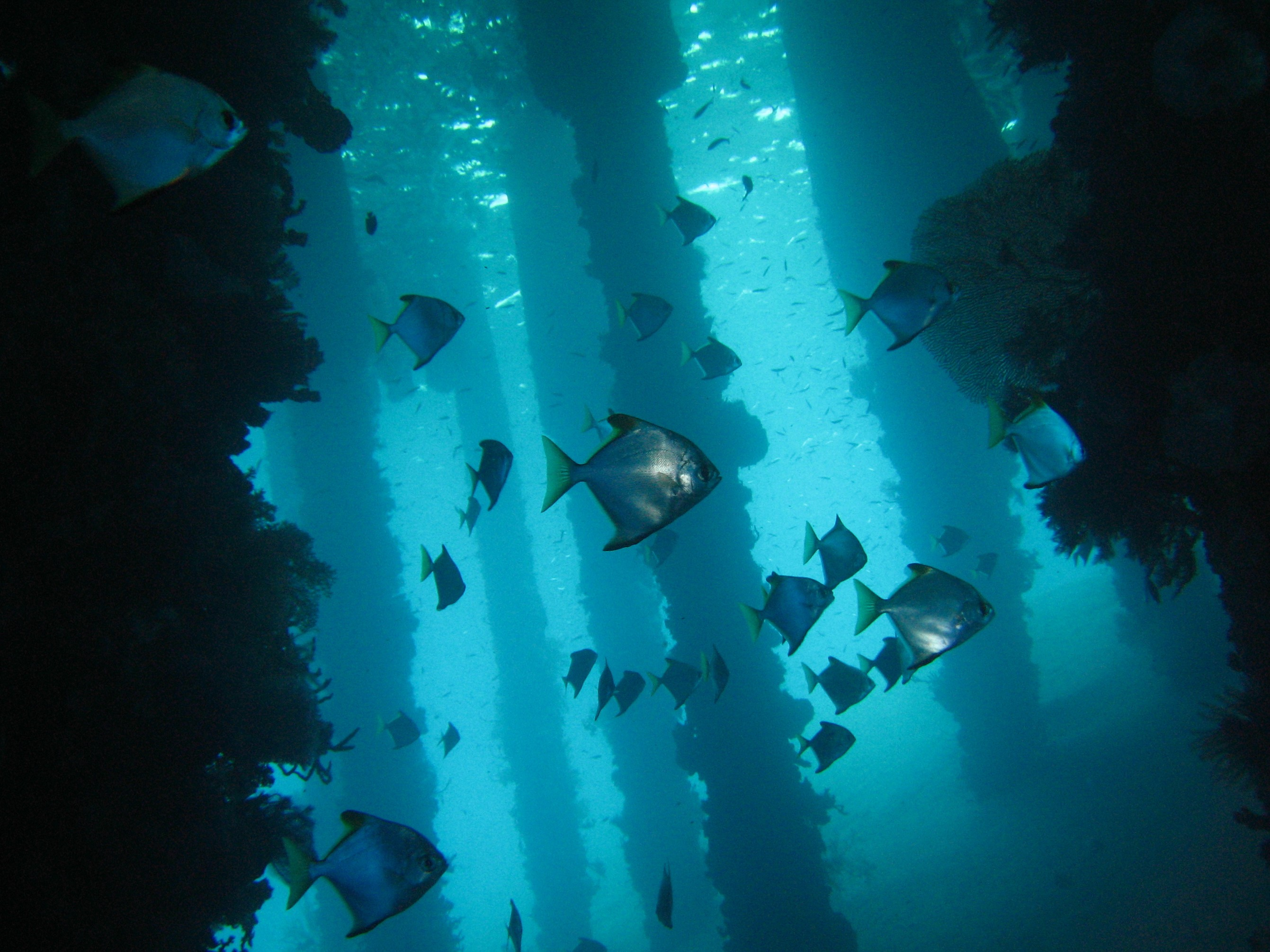 Dumaguete, Philippines Background is feet of a pier. 背景は桟橋の脚です。